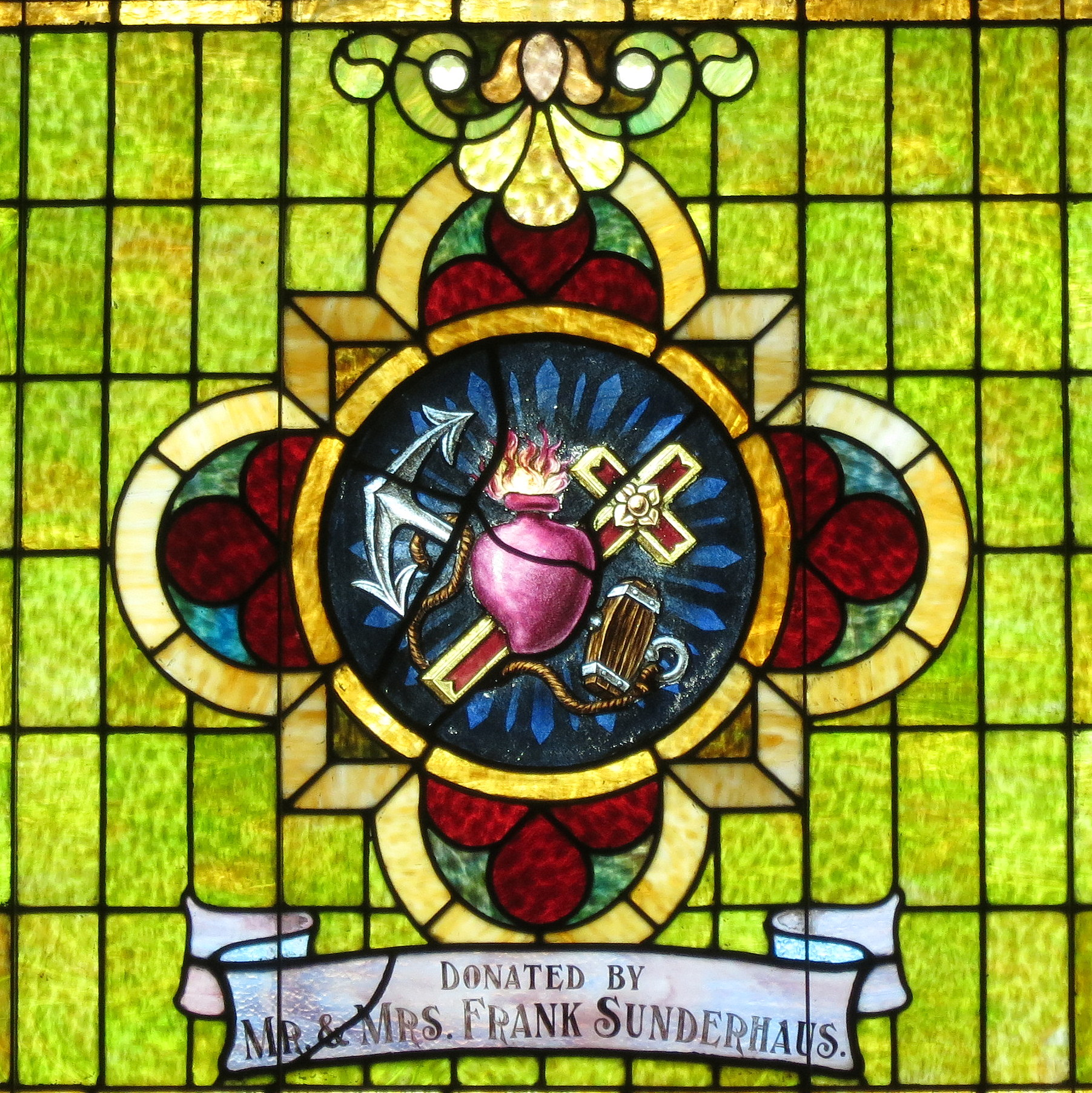 Saint John the Baptist Catholic Church (Dry Ridge, Ohio) - stained glass, Sacred Heart